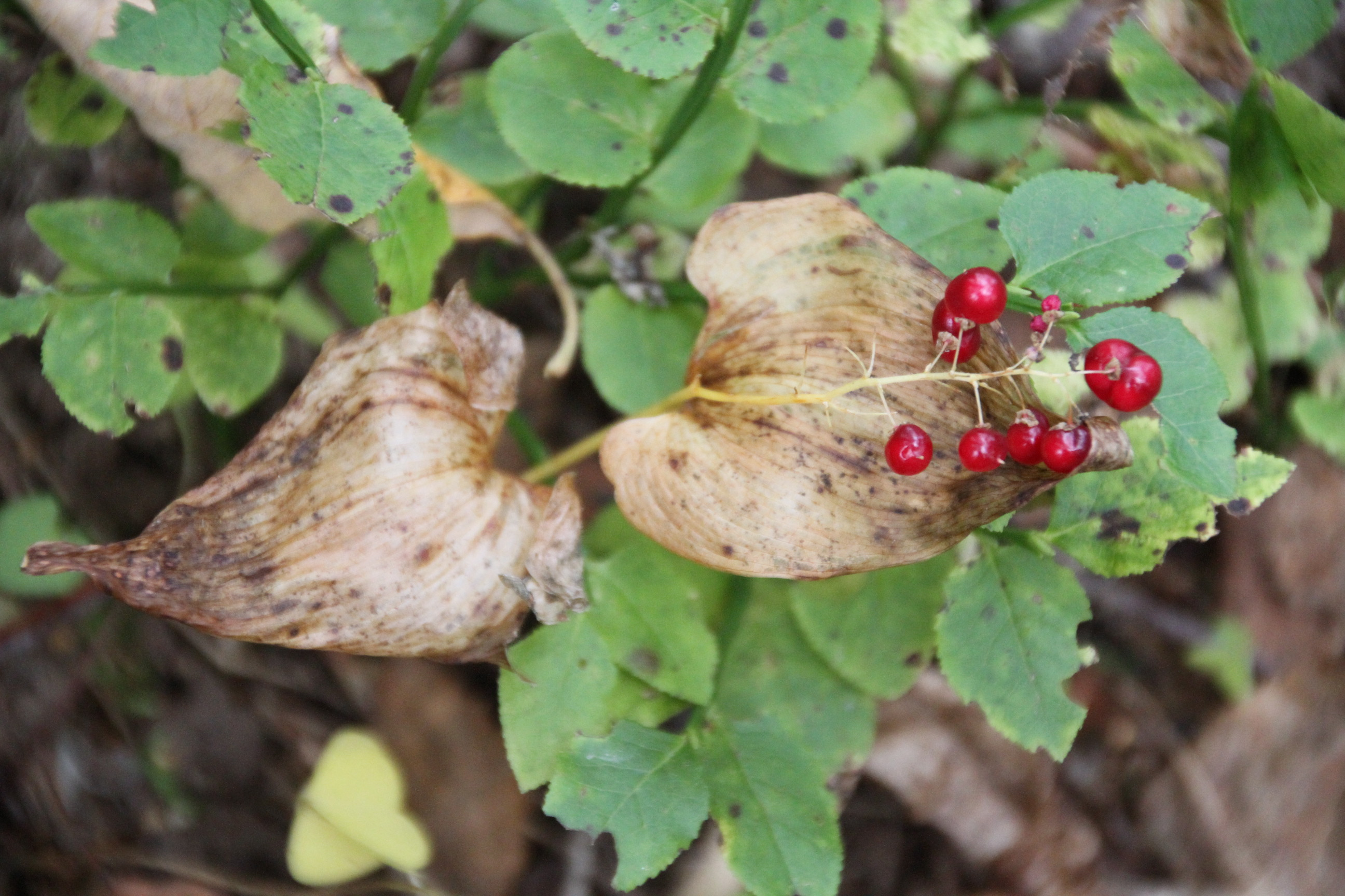 Maianthemum bifolium in late september, Bogstad (Oslo), Norway